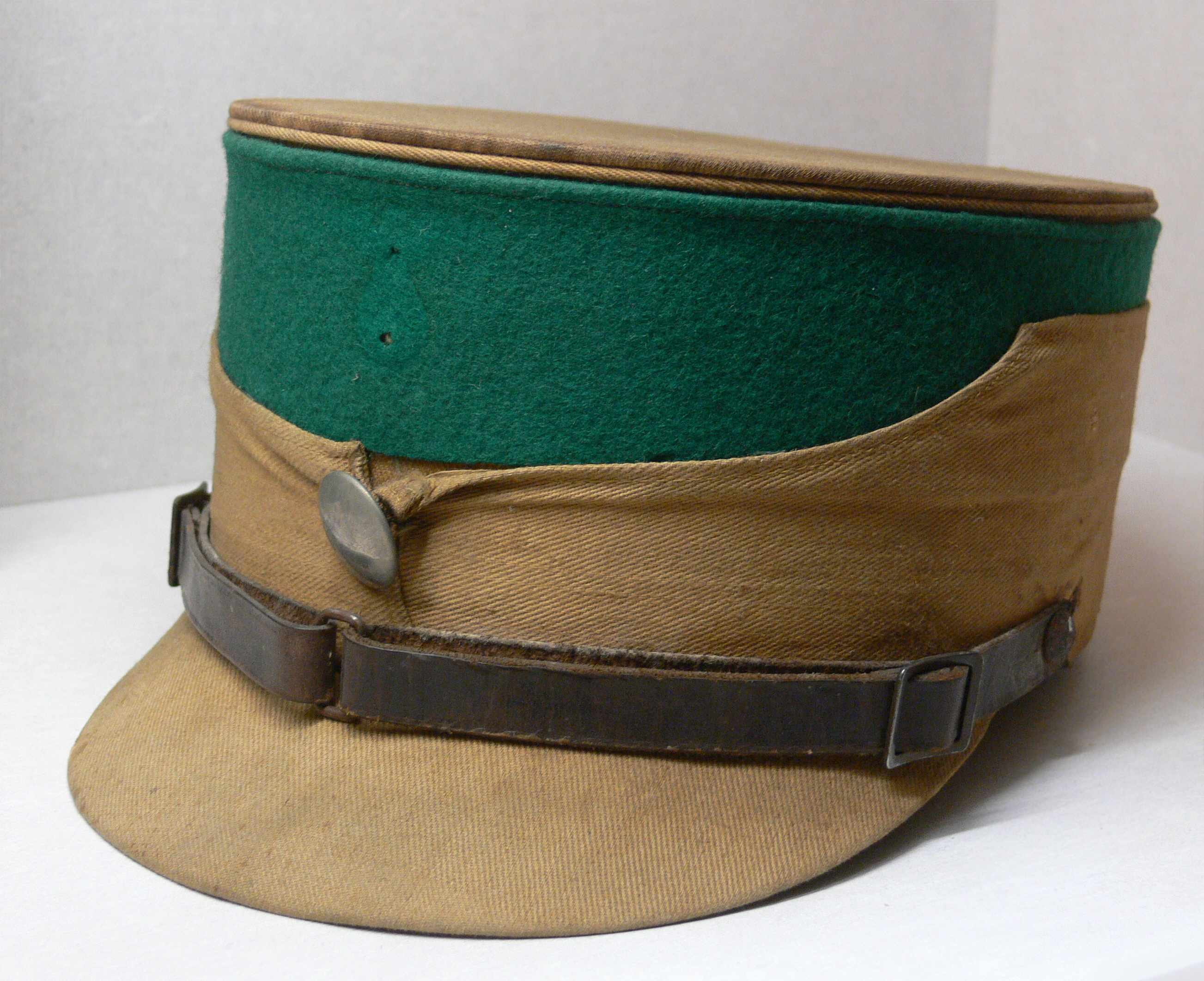 Brown Shaft cap of the Sturmabteilung (SA), with storm strap, cap eagle removed (Schloßberg museum, Chemnitz), worn until 1945.